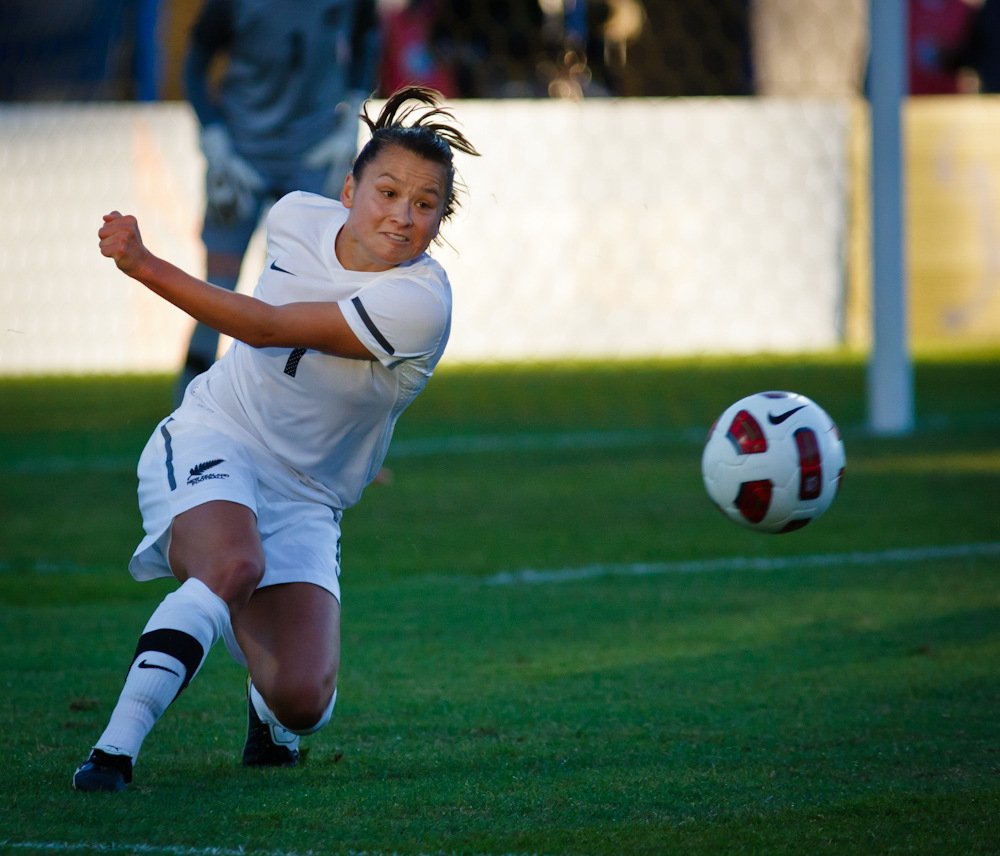 Ali Riley playing for the New Zealand women's national football team against Australia.